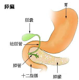 Japanese verision of "